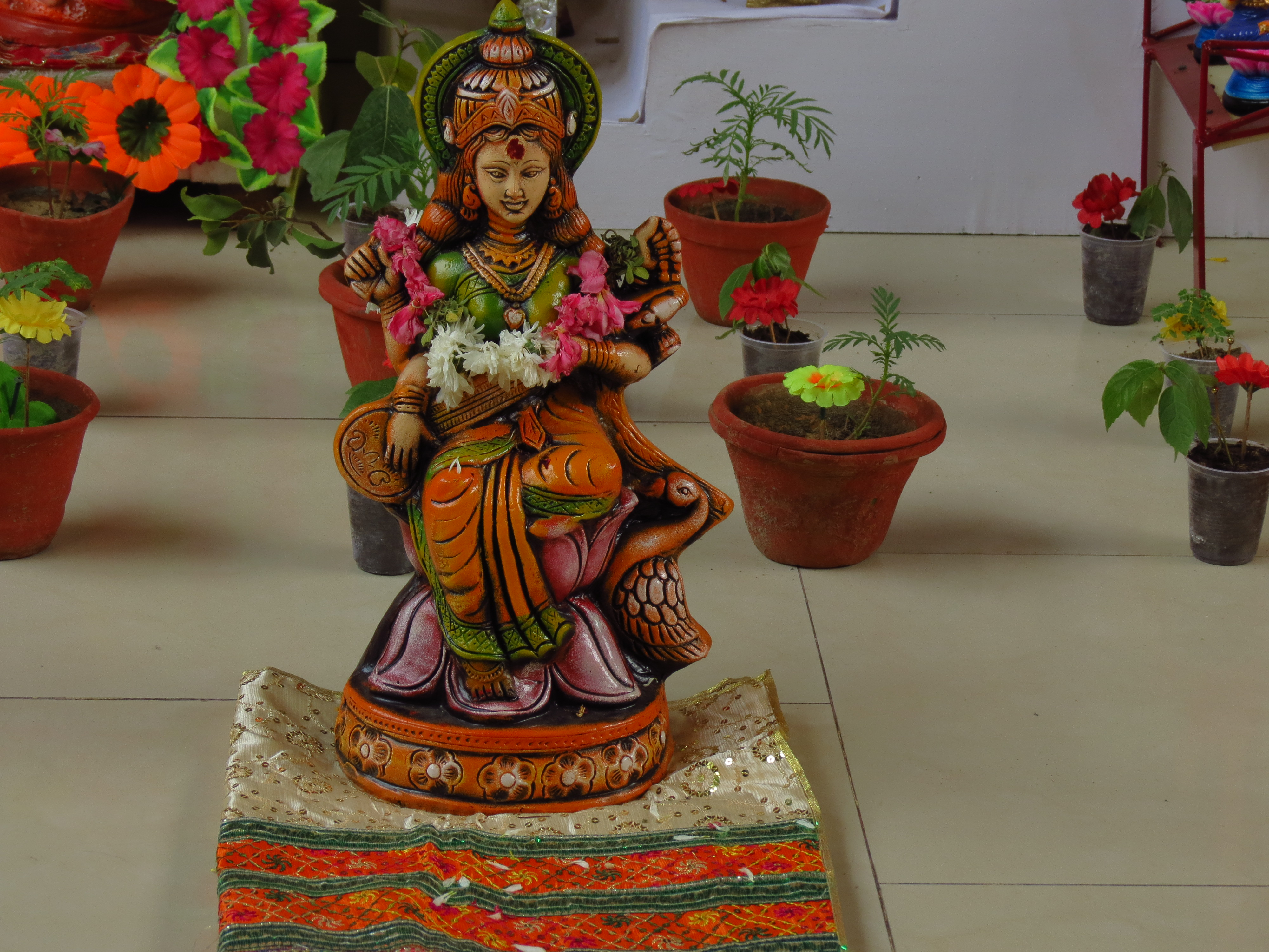 Saraswathi Devi